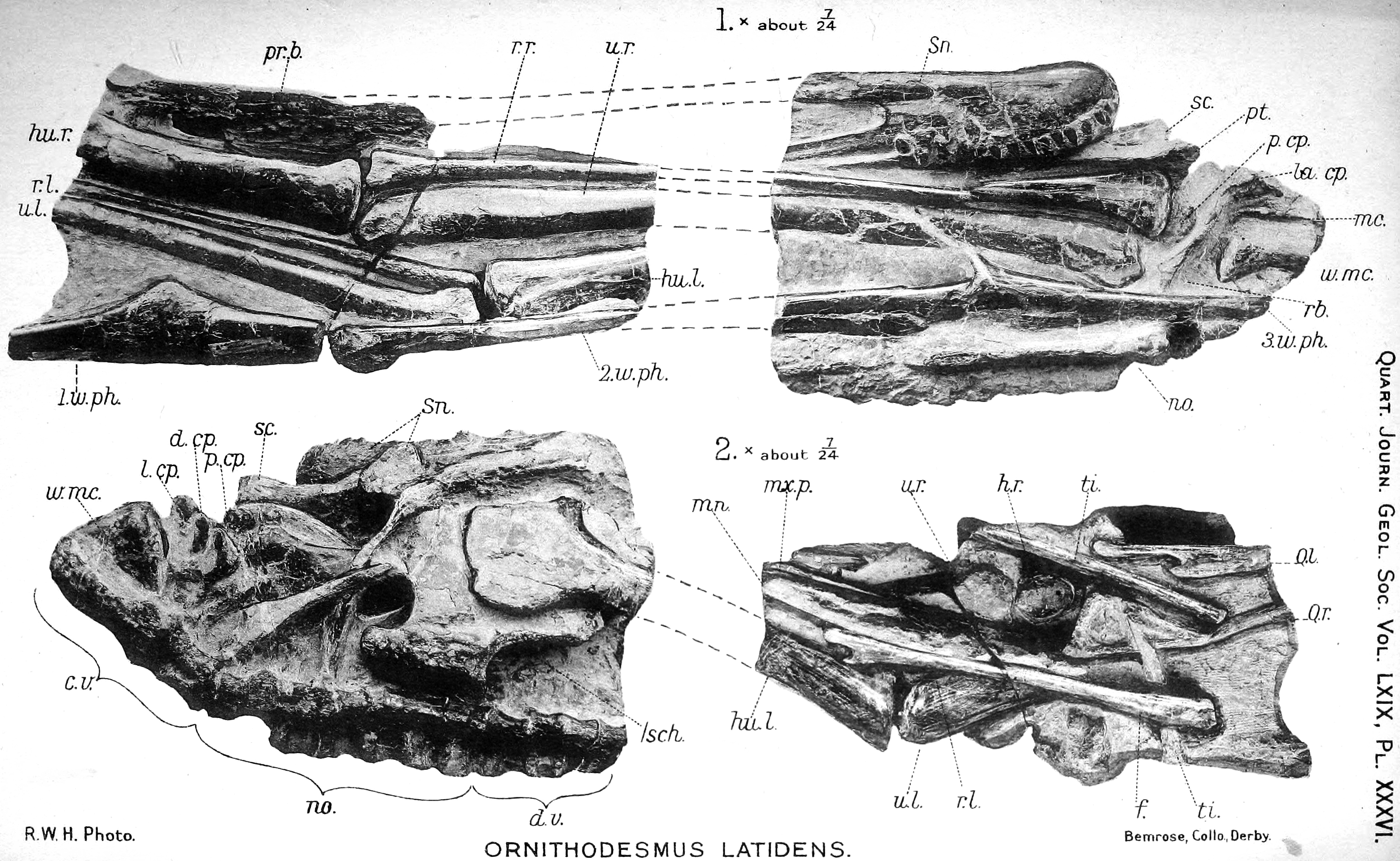 Title: The Quarterly journal of the Geological Society of London Year: 1845 (1840s) Authors: Geological Society of London Subjects: Geology Publisher: London (etc.) Text Appearing Before Image: f the right maxillo-nasal process: mx.n.b., part of the maxillo-nasal bar ; mx., maxilla ; a., line of division between theupper and the lower jaw; ran., mandible. B.M. R/3877. X 3. 5. Restoration of the skull, persj)ective lateral view : n.v., nasal vacuity ; a.o.v., antorbital vacuity; a.o.v.2., antorbital vacuity No. 2 ; 0., orbit;S.t.f., supra-temporal fossa; i.t.f, infra-temporal fossa; p., pre-maxilla ; mn., mandible; mx., maxilla ; mx.n.b., maxillo-nasal bar :J., jugal ; Qu., quadratojugal; Q., quadrate ; s.t.b., supra-temporalbar; p.f.o.b., post-fronto-orbital bar ; L, lachrymal; b., roundedboss of bone. X h Plate XXXVIII. Fi». 1. Restoration of the occiput: p.t.f, post-temporal fossa;; f.m., foramenmagnum ; c, occipital condyle ; Q., quadrate. X i. 2. Restoration of a cervical vertebra, ventral view. X A. 3. Right lateral view of the notarium : fa., the supposed articular facet for the scapula; A, anterior end. B.M. R/3877. X 5. Quart. Journ. Geol. Soc. Vol. LX1X, PL. XXXVI. Text Appearing After Image: Quart. Journ. Geol. Soc. Vol. LXIX, Pl. XXXVII.